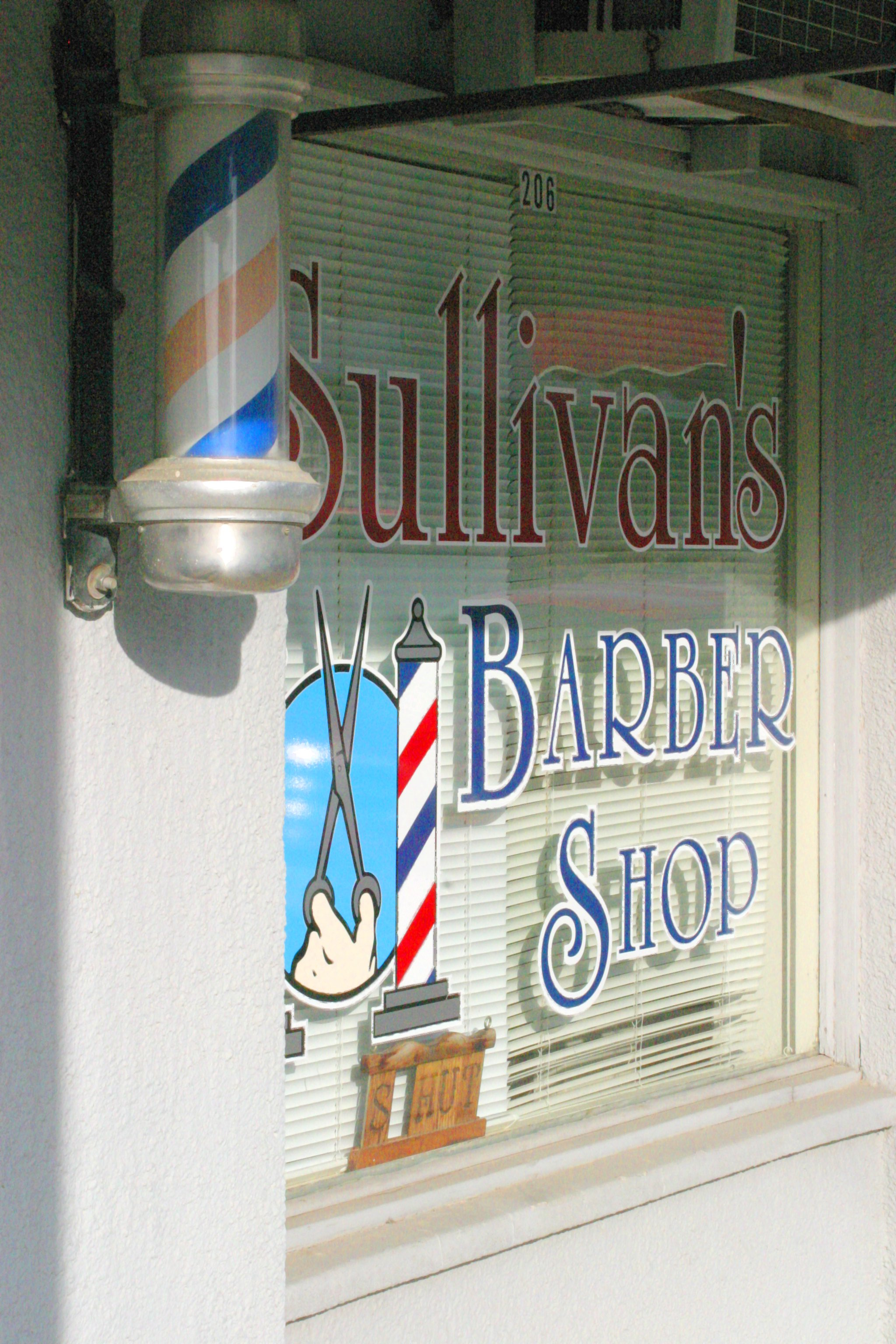 The window and barber pole for Sullivan's Barber Shop in downtown Gentry, Arkansas